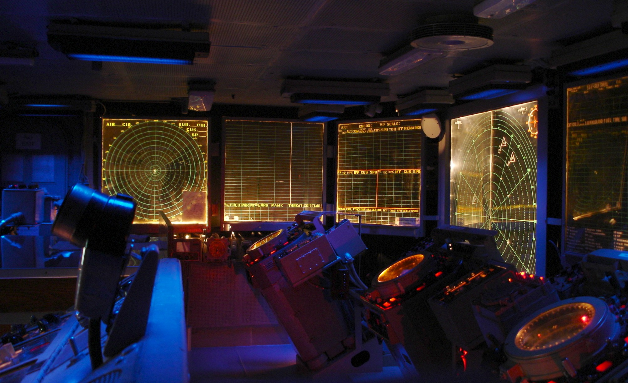 CIC (Combat Information Center) of USS Hornet, in dim light. Uploaded by author User:PeterThoeny